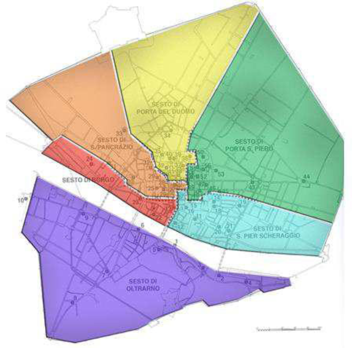 Old map of the discricts of Florence